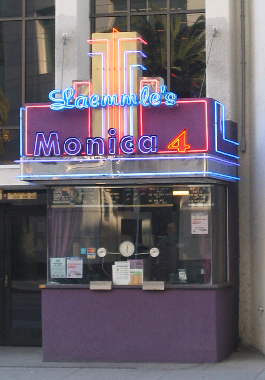 Box office at Laemmle's Monica 4 theater in Santa Monica, California.